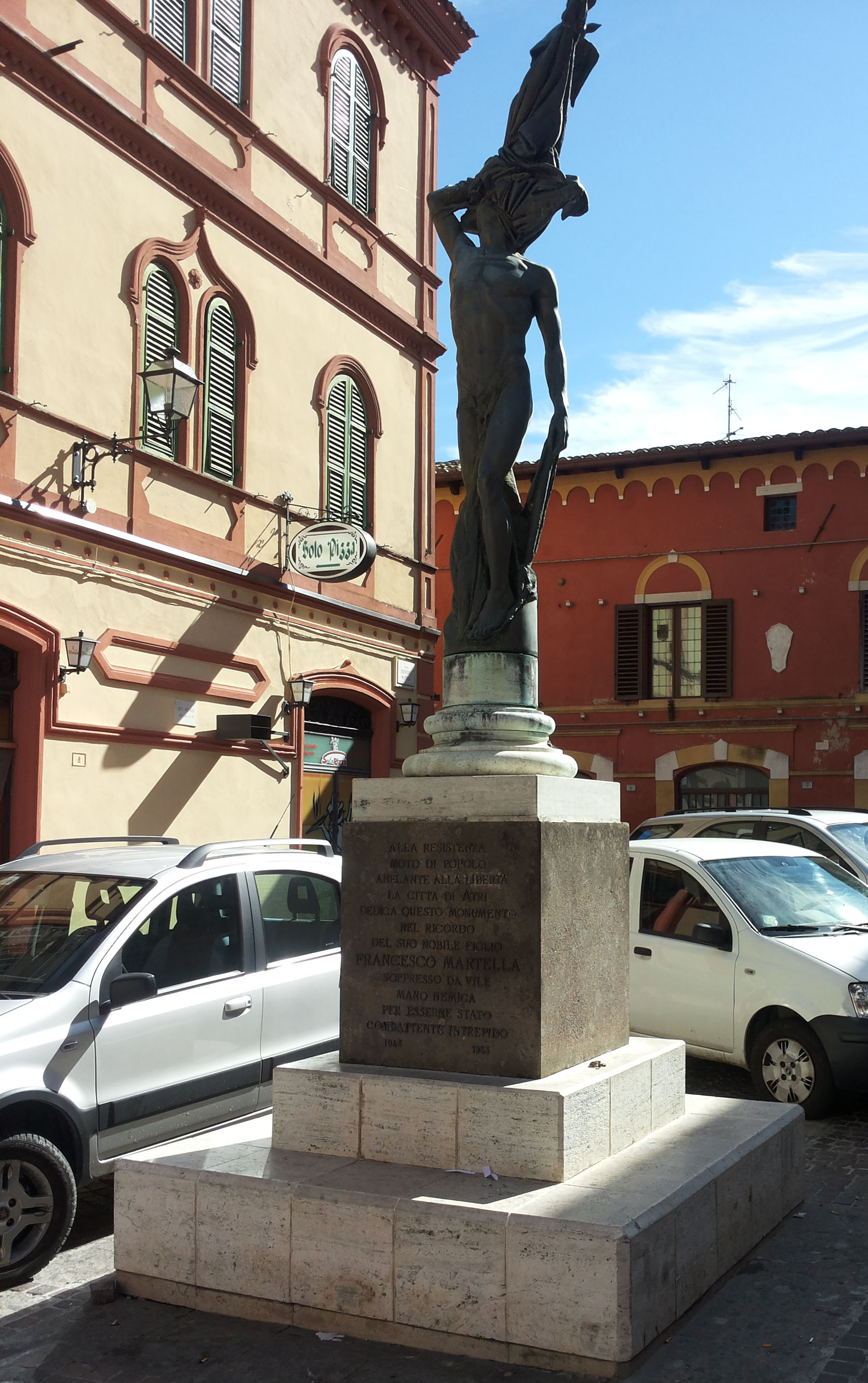 Monument for the Resistance in Atri - Abruzzo - Italy. The monument is dedicated to Francesco Martella, died in 1943. The sculpture, of 3 meters highness, is made by the italian artist Ireneo Janni.